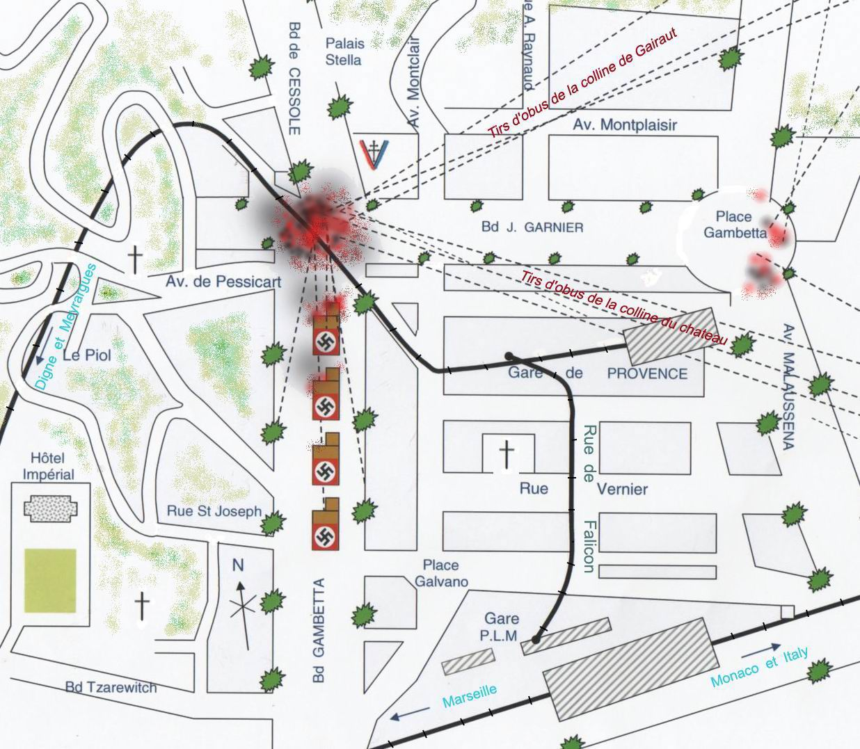 Plan of the hostilities to the level crossing in August 28th, 1944, during the Liberation of Nice by the French Resistance.The toponymic names are resulting from a map of the War Office dated 1943.